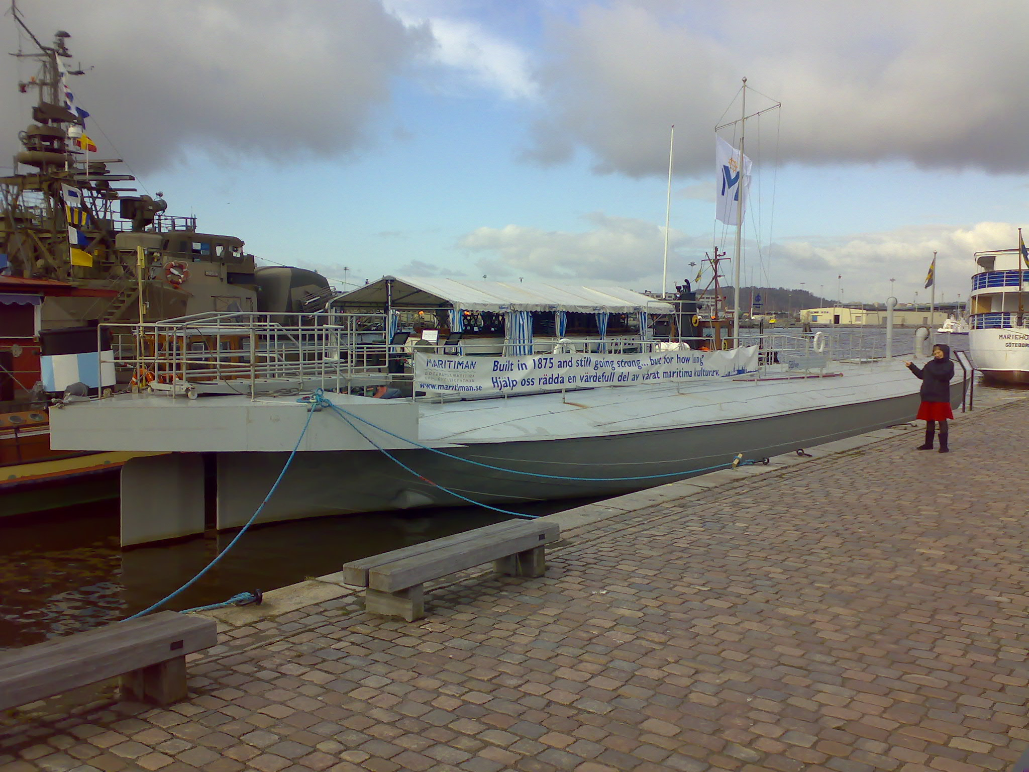 A photo of the Sölve monitor, an armoured ship built in 1875 in Norrköping, Sweden, by Ericsson-D'Ailly. It is currently moored at the Maritiman museum in Gothenburg, Sweden.